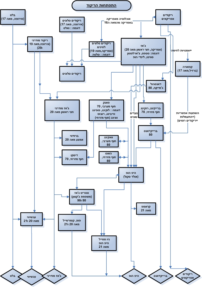 This flowchart describes the evolution of main dance styles (hebrew)